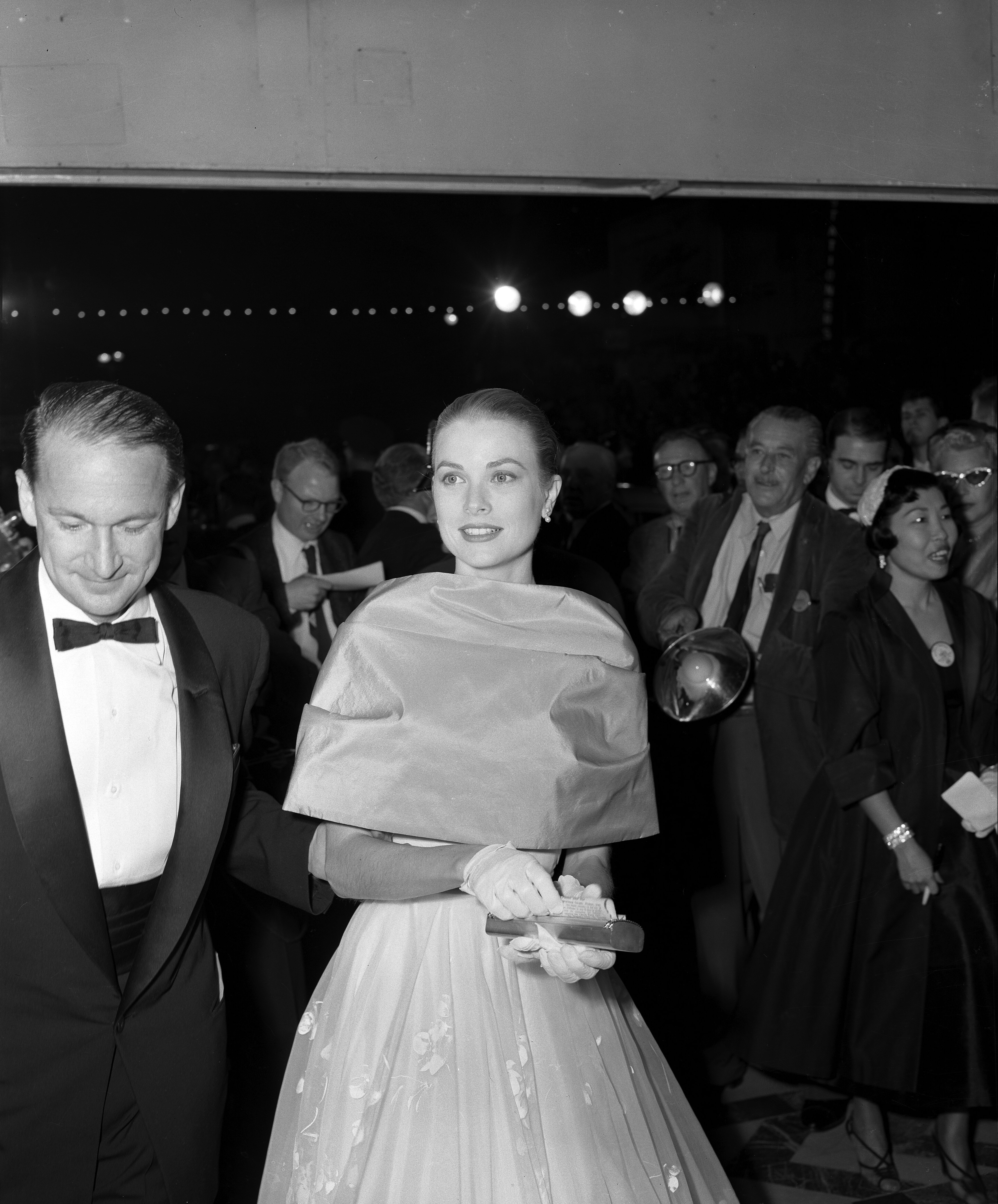 Actress Grace Kelly arriving at the 28th annual Academy Awards, 1956.